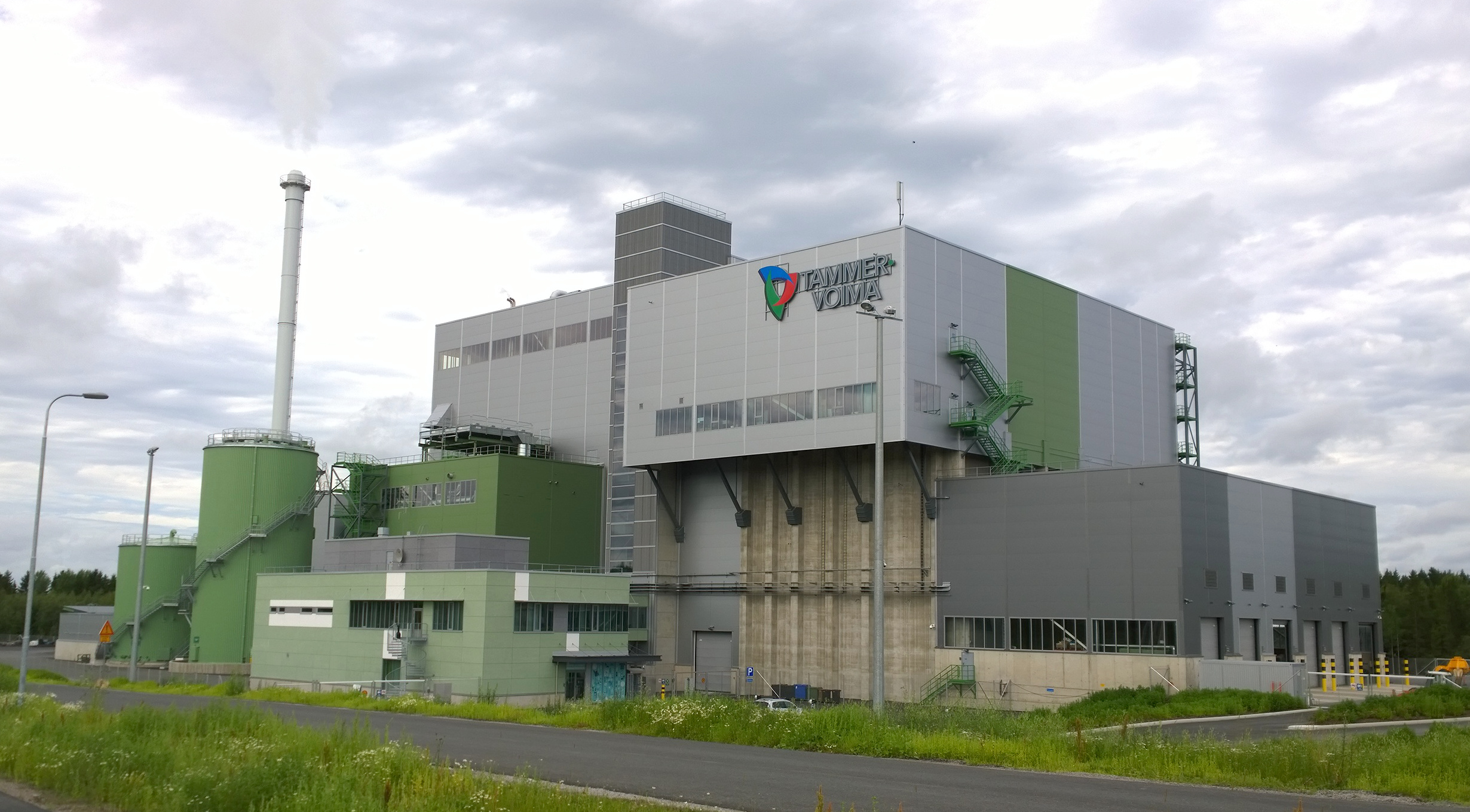 Tarasteenjärvi incineration plant